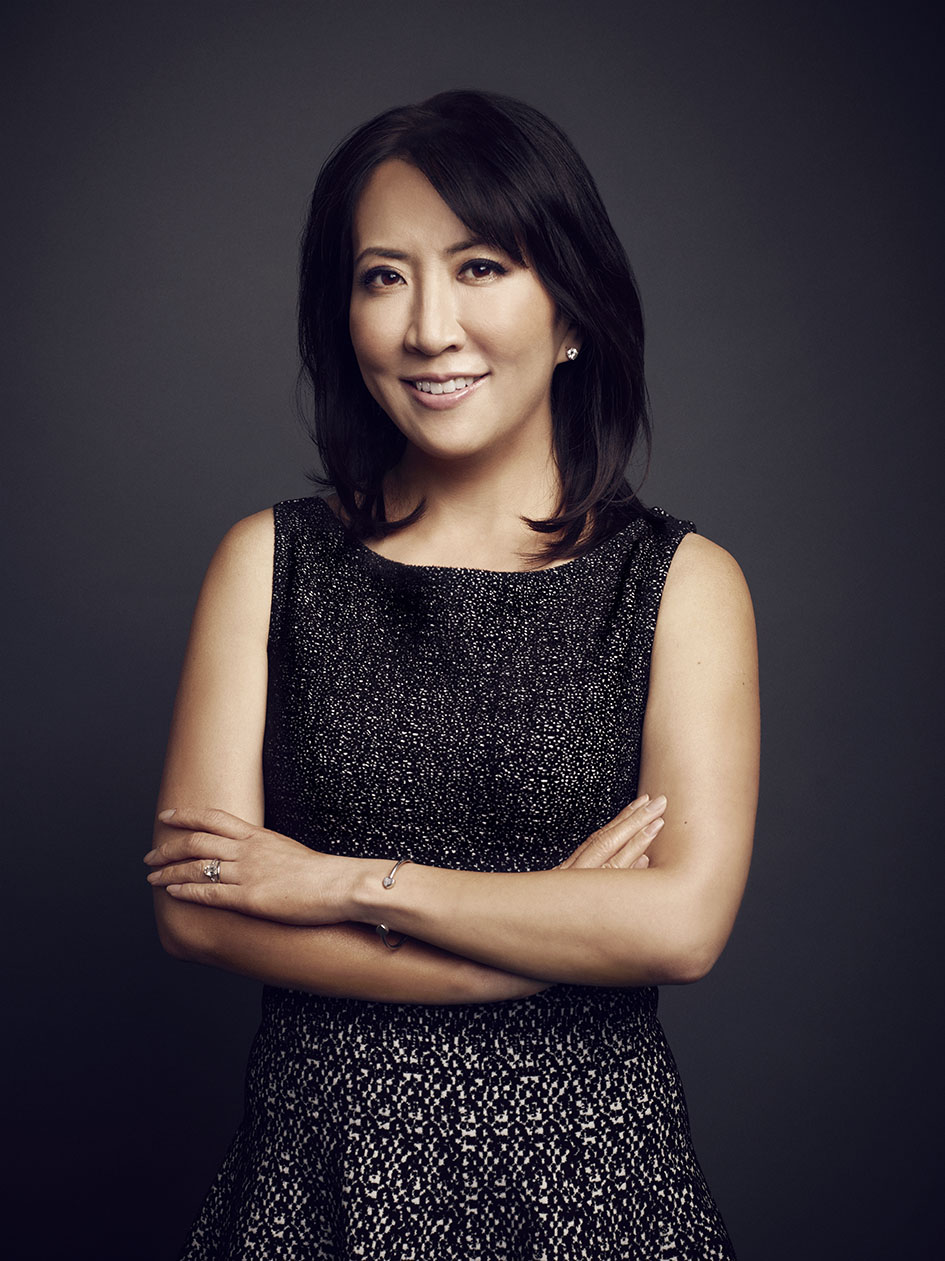 Janice Min, in 2011.